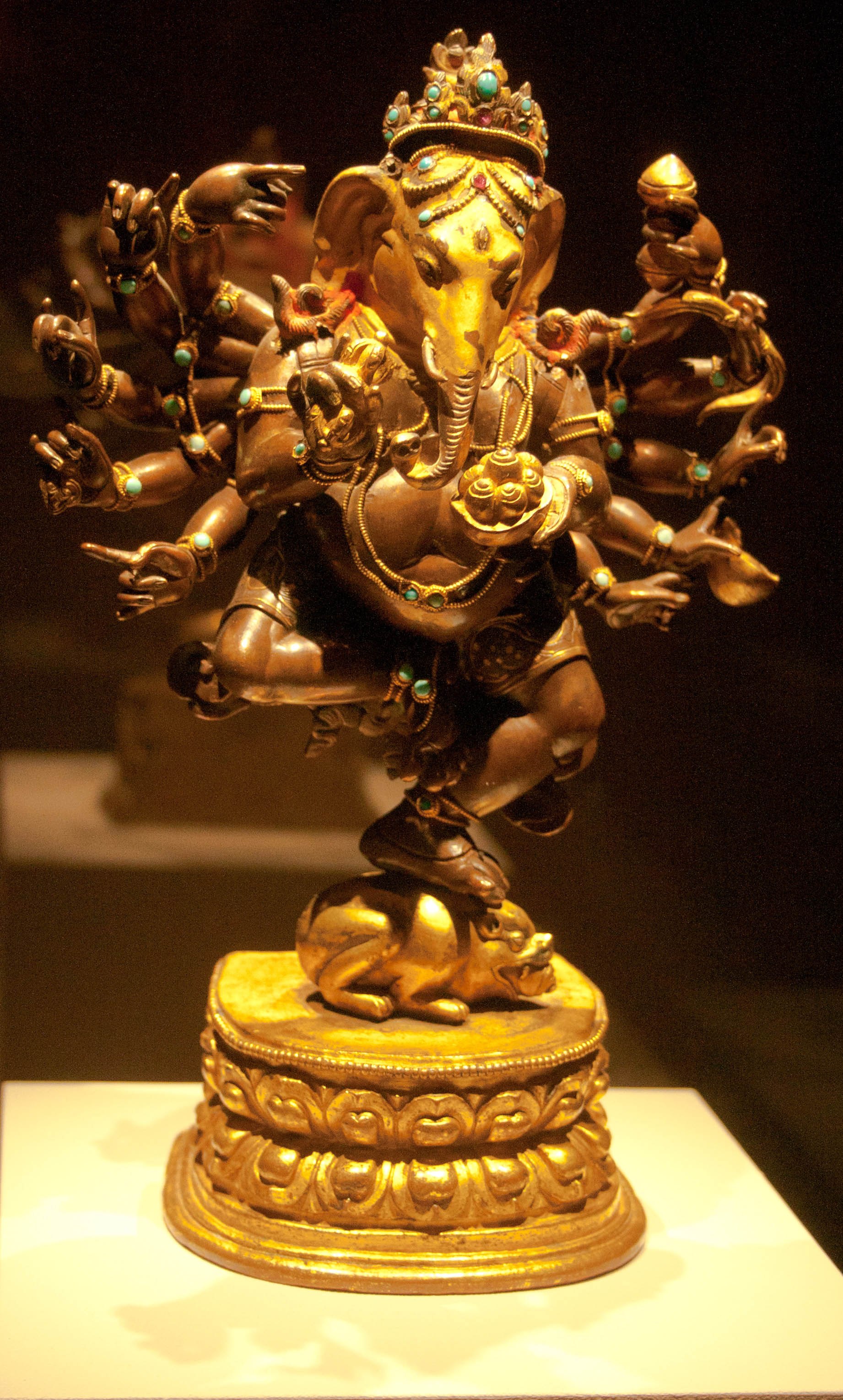 The bronzes in this exhibition originate from India, China, Sri Lanka and the Himalayan regions and most of them were exclusively created by the lost form method (lost wax), a process of casting metal images that is known in the West as cire perdue. The shape of the object was initially sculpted in hard wax, often based on a clay core, and then covered with successive layers of clay, except for the mouth of the pouring channel, till a fairly thick and solid coat was obtained. Once the clay mould had dried, it was heated in an oven to allow the melted wax to drain away through vent holes. Molten metal was poured through channels into the cavity of the mould to take the place of the wax. After the metal was sufficiently cooled, the outer shell of clay was broken off to reveal the metal image. The inner clay core was often removed to accommodate consecrated materials. The main difference of the cire perdue technique and other casting methods was that each mould could only be used once, as it was ‘lost’ (broken) in the course of casting. It implies that each image was modelled and cast individually and was therefore a unique artefact. The finish is created by treating the bronze with mercury that results in a gilt-like appearance. In a complex figure parts are molded separately and then combined after casting.